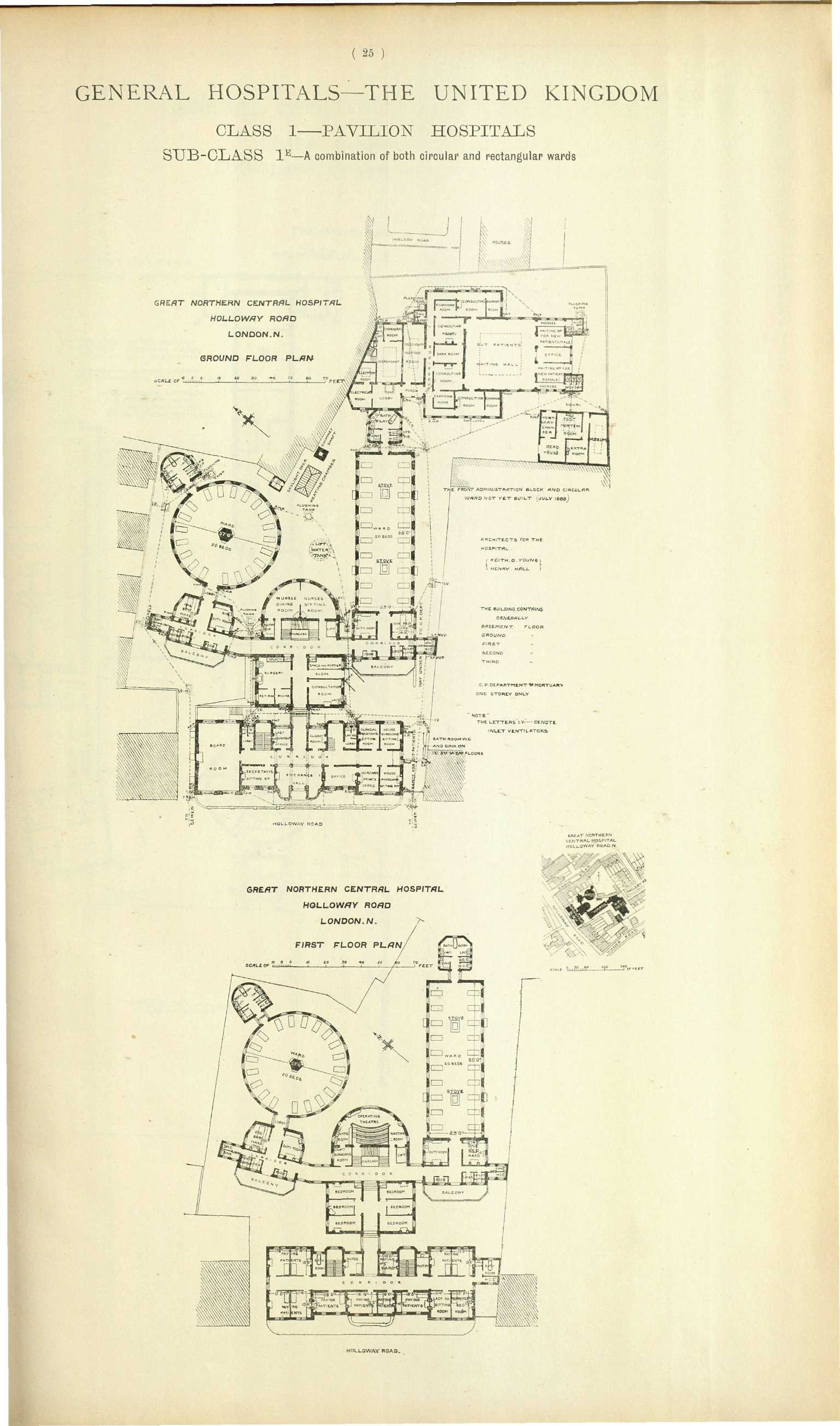 An individual page from the scanned book: Hospitals and Asylums of the World : Portfolio of Plans (1893)